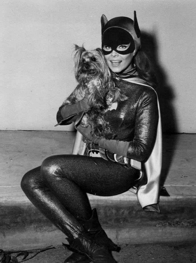 Photo of Yvonne Craig as Batgirl on the Batman set with her Yorkie, Sebastian.